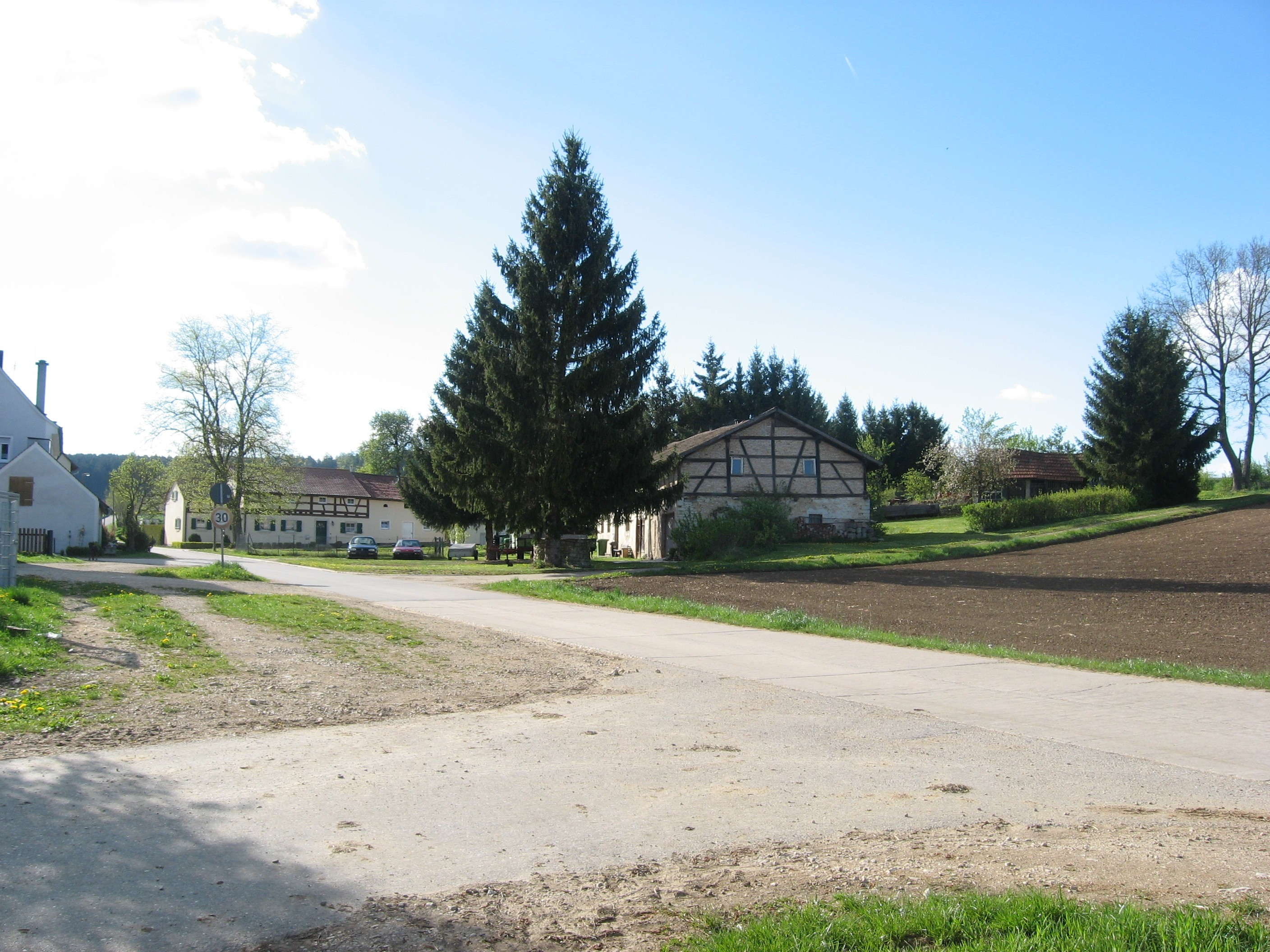 Unterheumoedern (part of Treuchtlingen, Bavaria), eastern outskirts